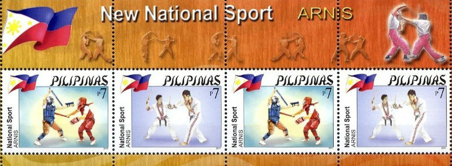 Arnis - Newly Declared National Sport